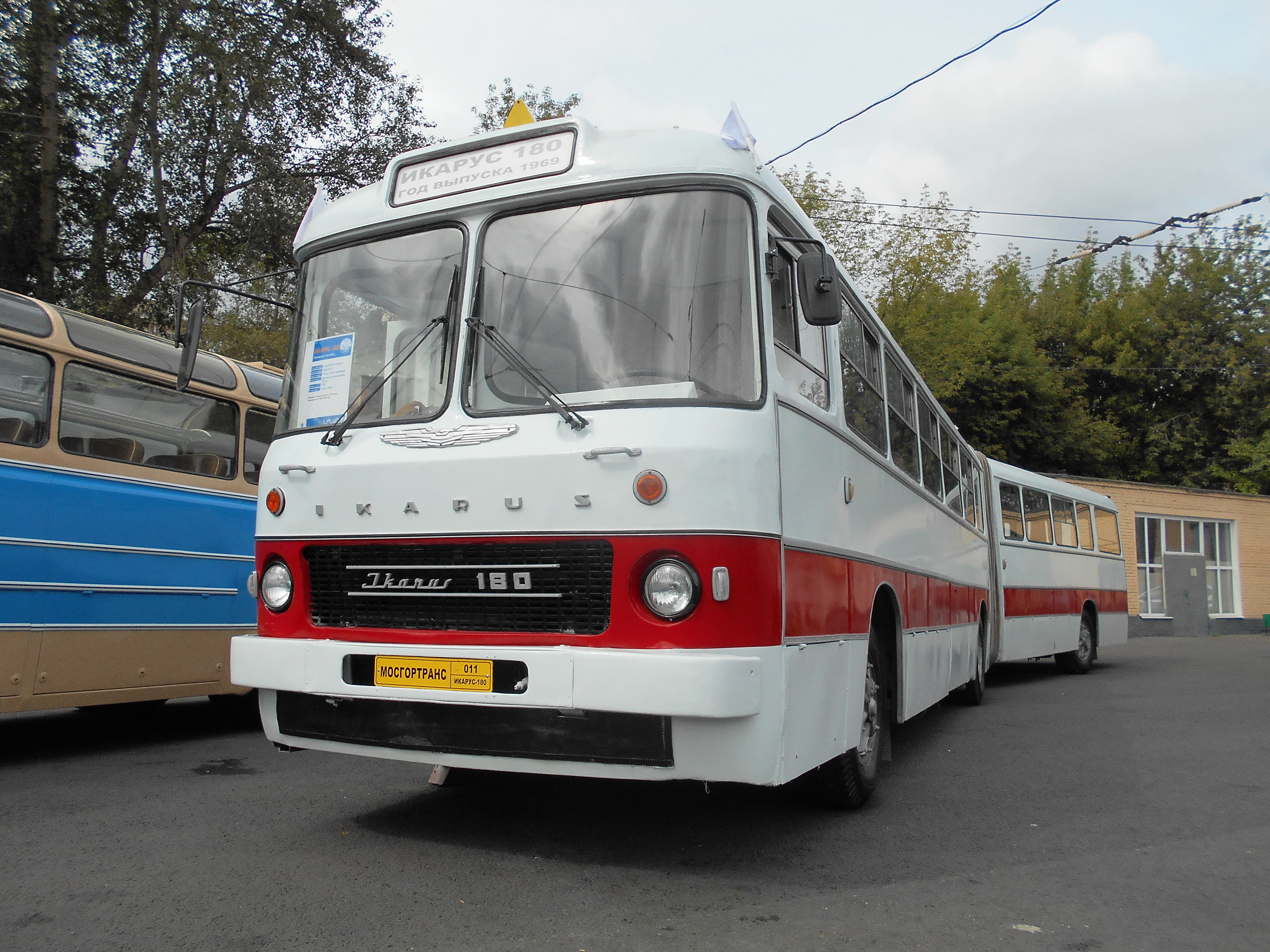 The photo was taken duruing 2016 Moscow Bus Fest. Ikarus-180 is still in move!